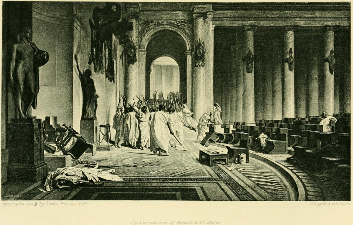 Jean-Léon Gérôme, The death of Caesar; photo by Goupil